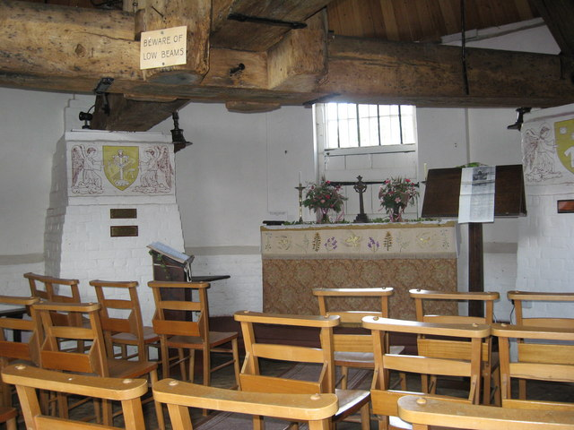 Inside the Mill Church, Reigate Heath Surrey TQ234500 The Mill Church is the only church in England to be housed in a windmill. It is set on a hill in the heart of Reigate Heath and the building iteslf is a finely preserved post windmill. The church is open every month for services and can accommodate no more than 50 worshippers. It has been used as a place of worship since 1880.